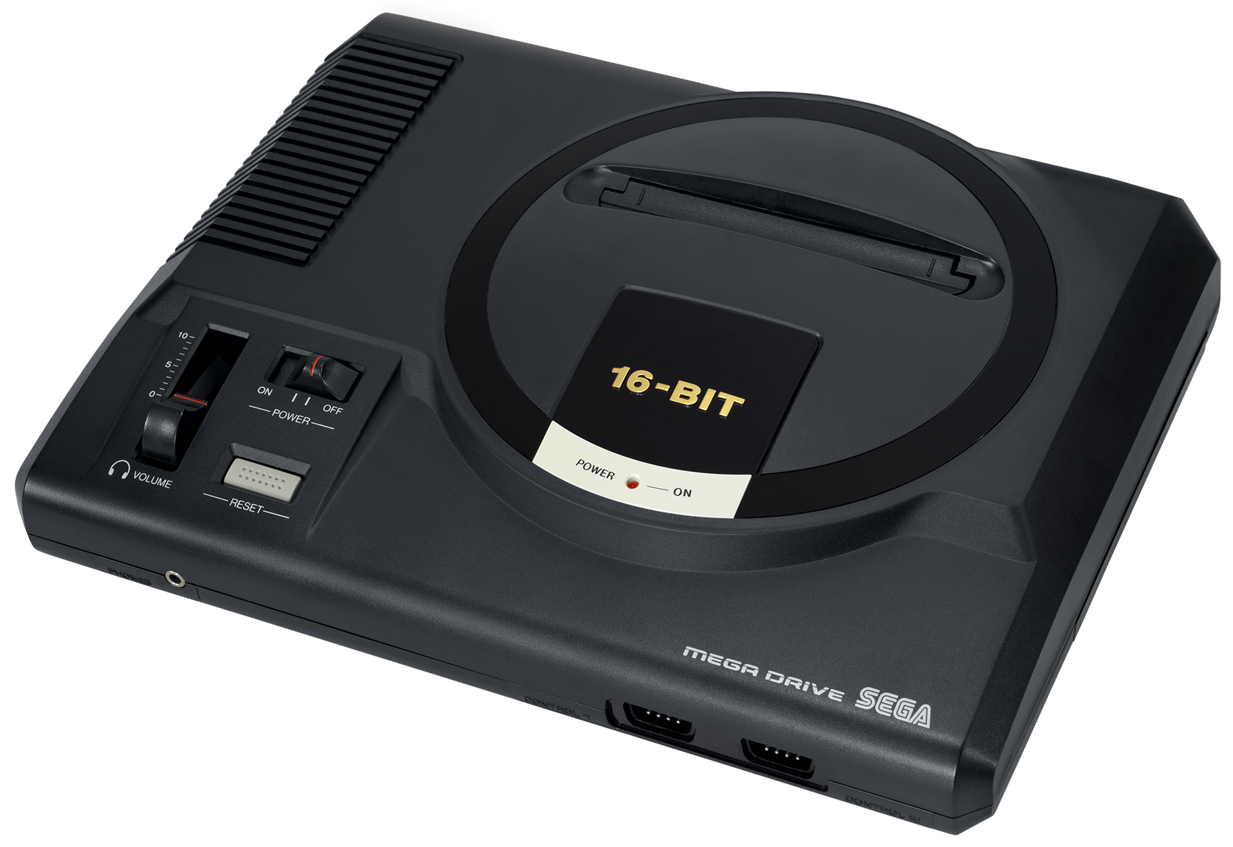 Sega Mega Drive (PAL) EU version, 16-bit game console. (1990)